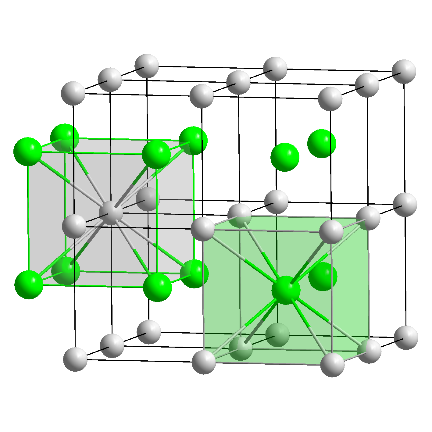 Crystal structure of CsCl with coordination polyhedra